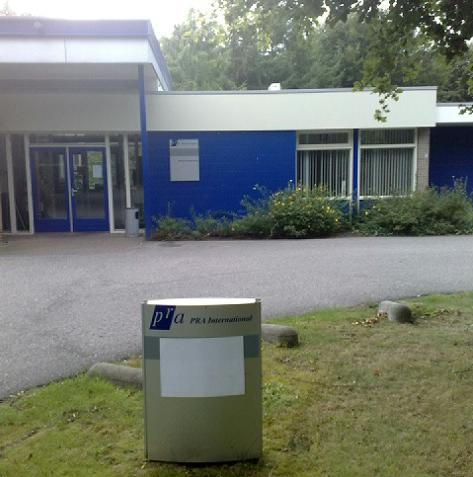 Building of Pharmateutical company PRA International in Zuidlaren